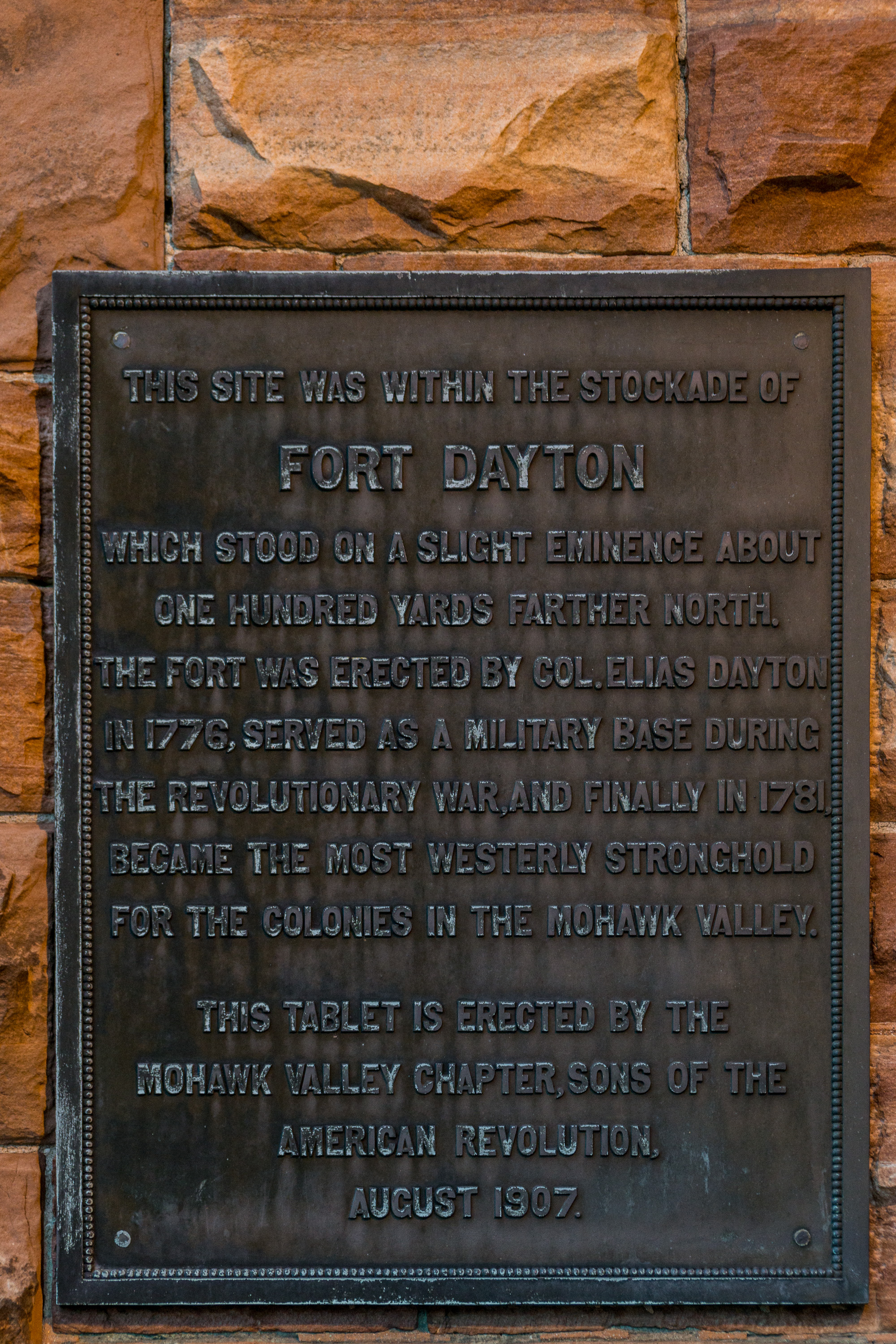 Plaque on the County Treasurer's Office, referencing Fort Dayton, Herkimer, New York. THIS SITE WAS WITHIN THE STOCKADE OF FORT DAYTON, WHICH STOOD ON A SLIGHT EMINENCE ABOUT ONE HUNDRED YEARDS FURTHER NORTH. THE FORT WAS ERECTED BY COL. ELIAS DAYTON IN 1776, SERVED AS A MILITARY BASE DURING THE REVOLUTIONARY WAR AND FINALLY IN 1781 BECAME THE MOST WESTERLY STRONGHOLD FOR THE COLONIES IN THE MOHAWK VALLEY. THIS TABLET IS ERECTED BY THE MOHAWK VALLEY CHAPTER, SONS OF THE AMERICAN REVOLUTION, AUGUST 1907.